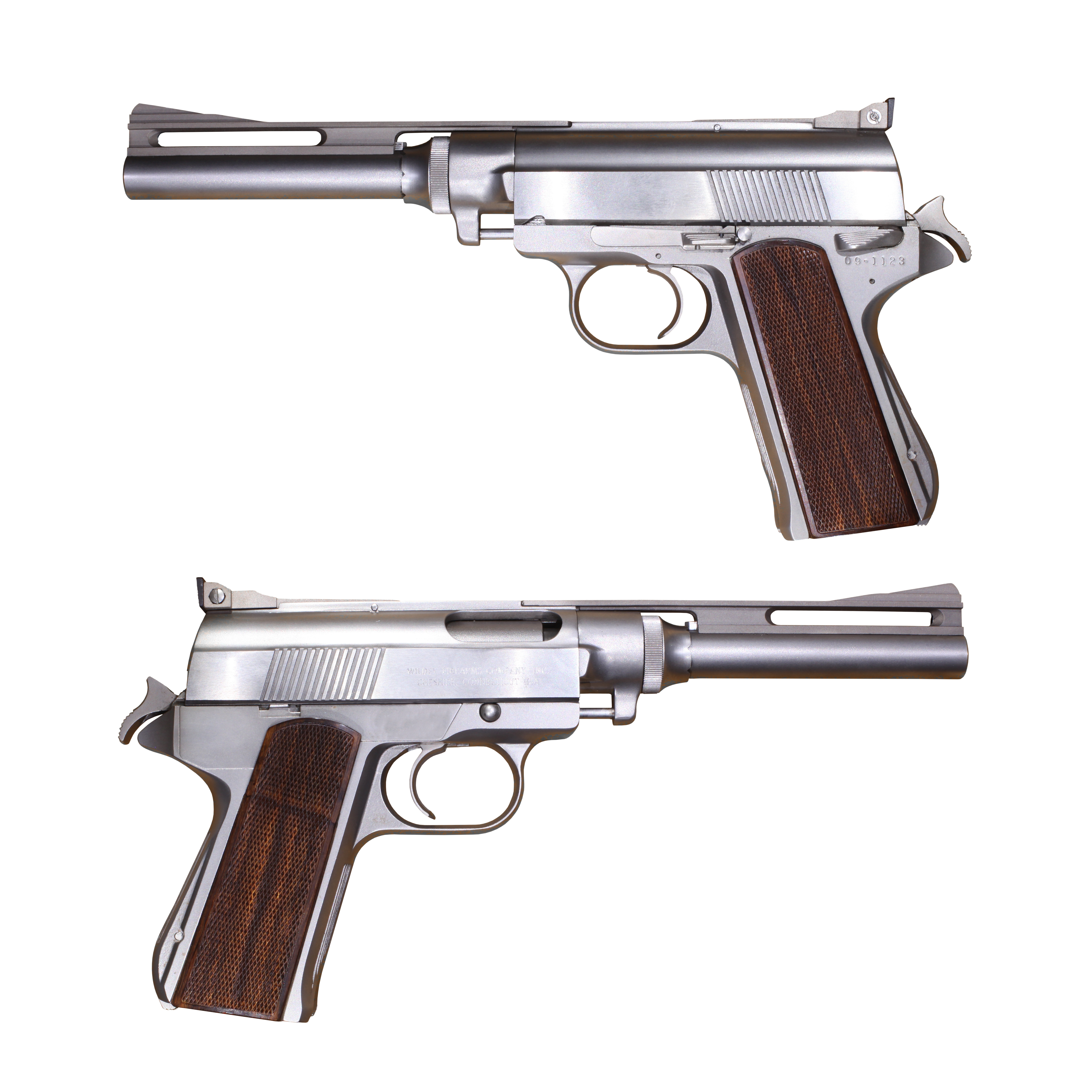 .475 Wildey Magnum Pistol. Two views of the same object. Collection Paul Regnier, Lausanne, Switzerland